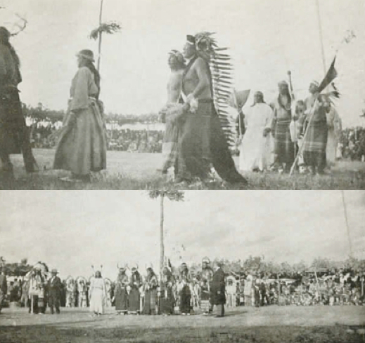 Sun Dance, Rosebud Agency, South Dakota, 1928 Two photo composite. This work is in the public domain because it was published in the United States between 1923 and 1963 and although there may or may not have been a copyright notice, the copyright was not renewed. Unless its author has been dead for the required period, it is copyrighted in the countries or areas that do not apply the rule of the shorter term for US works, such as Canada (50 pma), Mainland China (50 pma, not Hong Kong or Macao), Germany (70 pma), Mexico (100 pma), Switzerland (70 pma), and other countries with individual treaties. See Commons:Hirtle chart for further explanation.